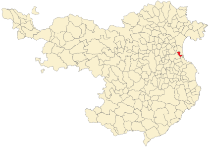 L'armentera